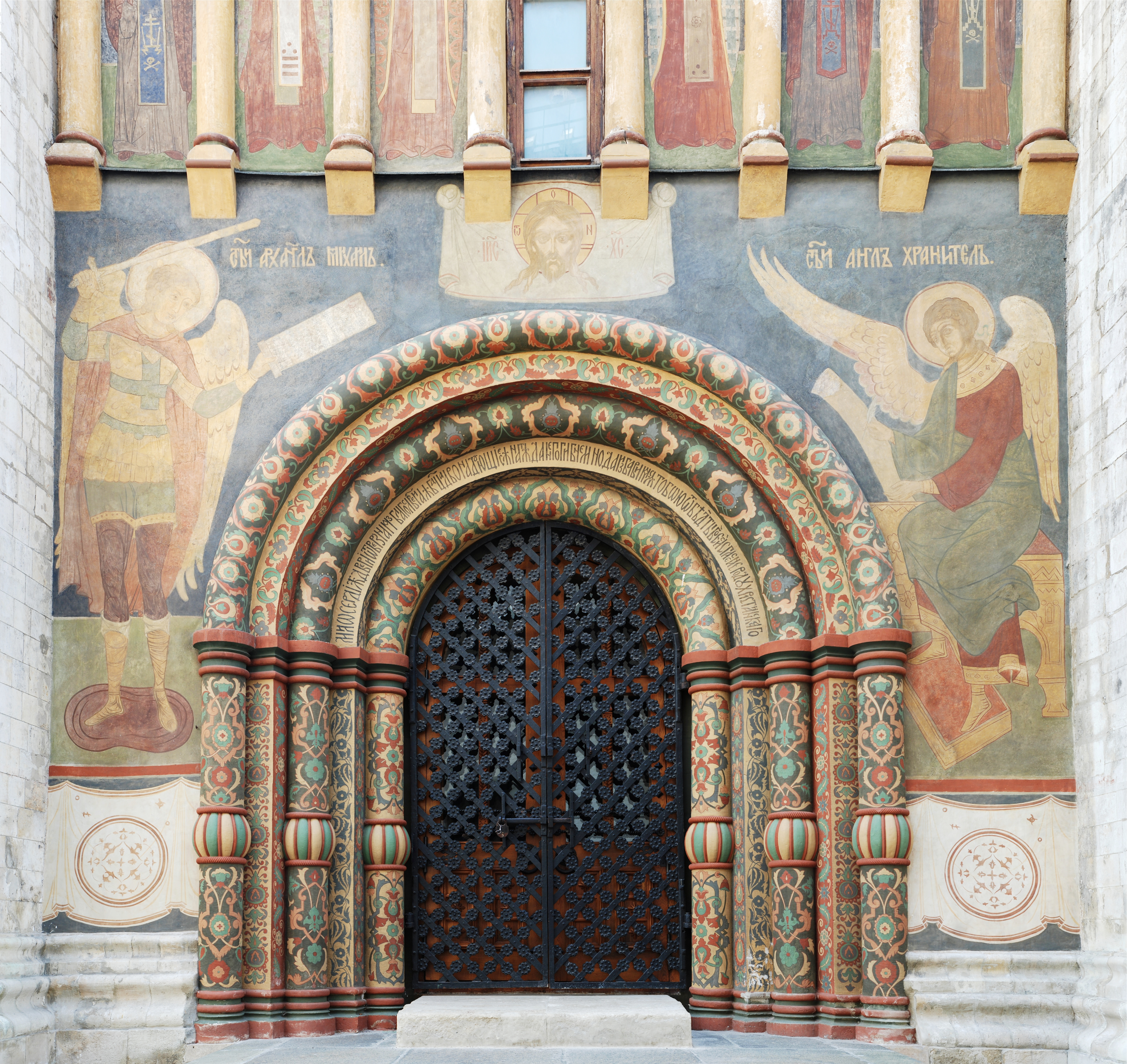 Northern door of the Dormition (Assumption) Cathedral in the Kremlin, Moscow.